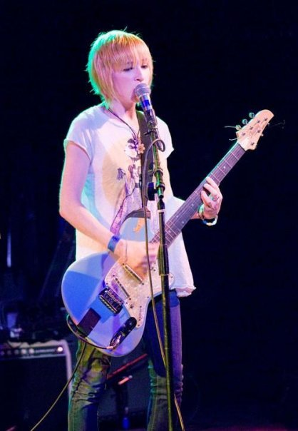 They've all been here at some stage, Hendrix, The Beach Boys and of course WSBD.